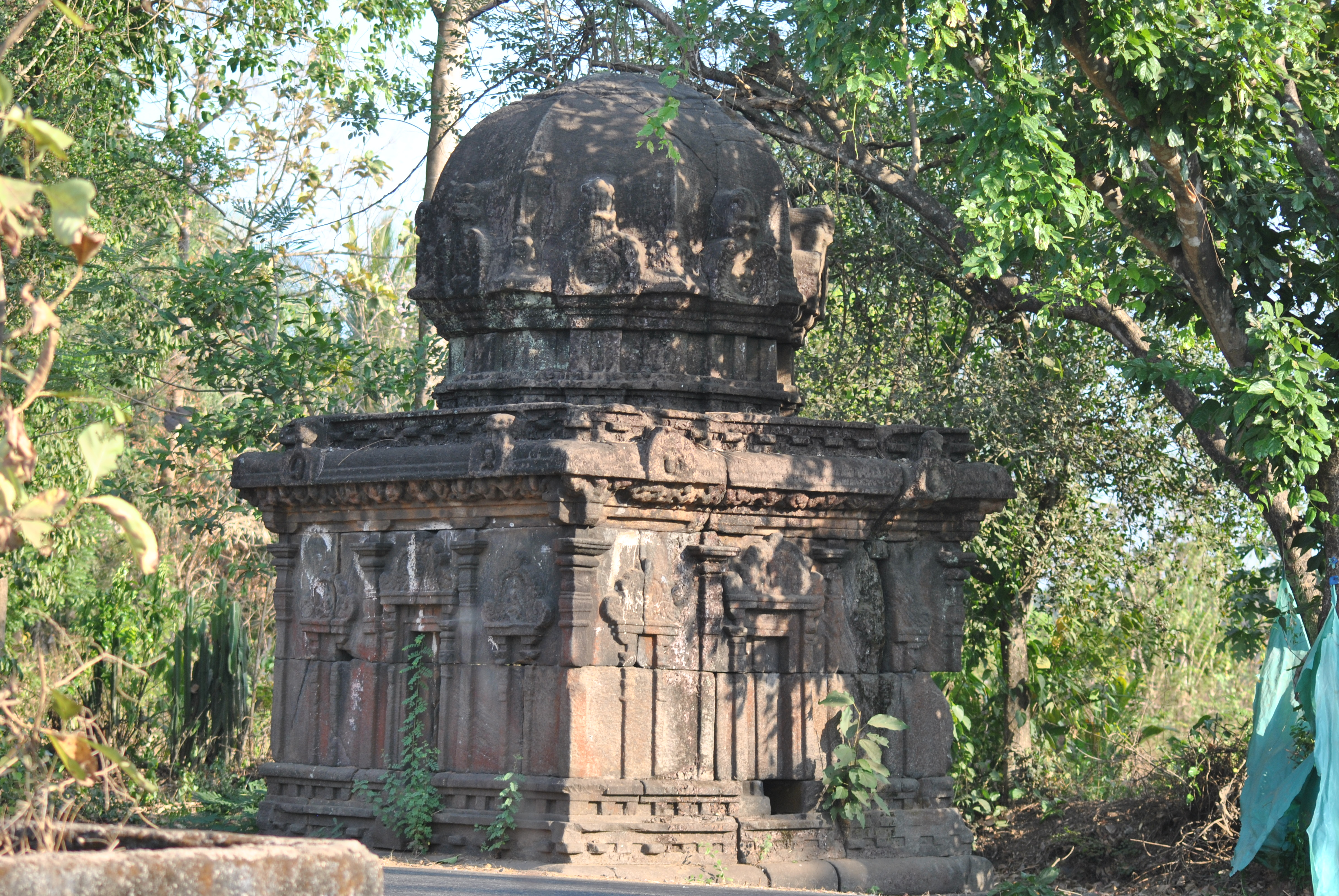 Kallilmadam Jainist Monument!